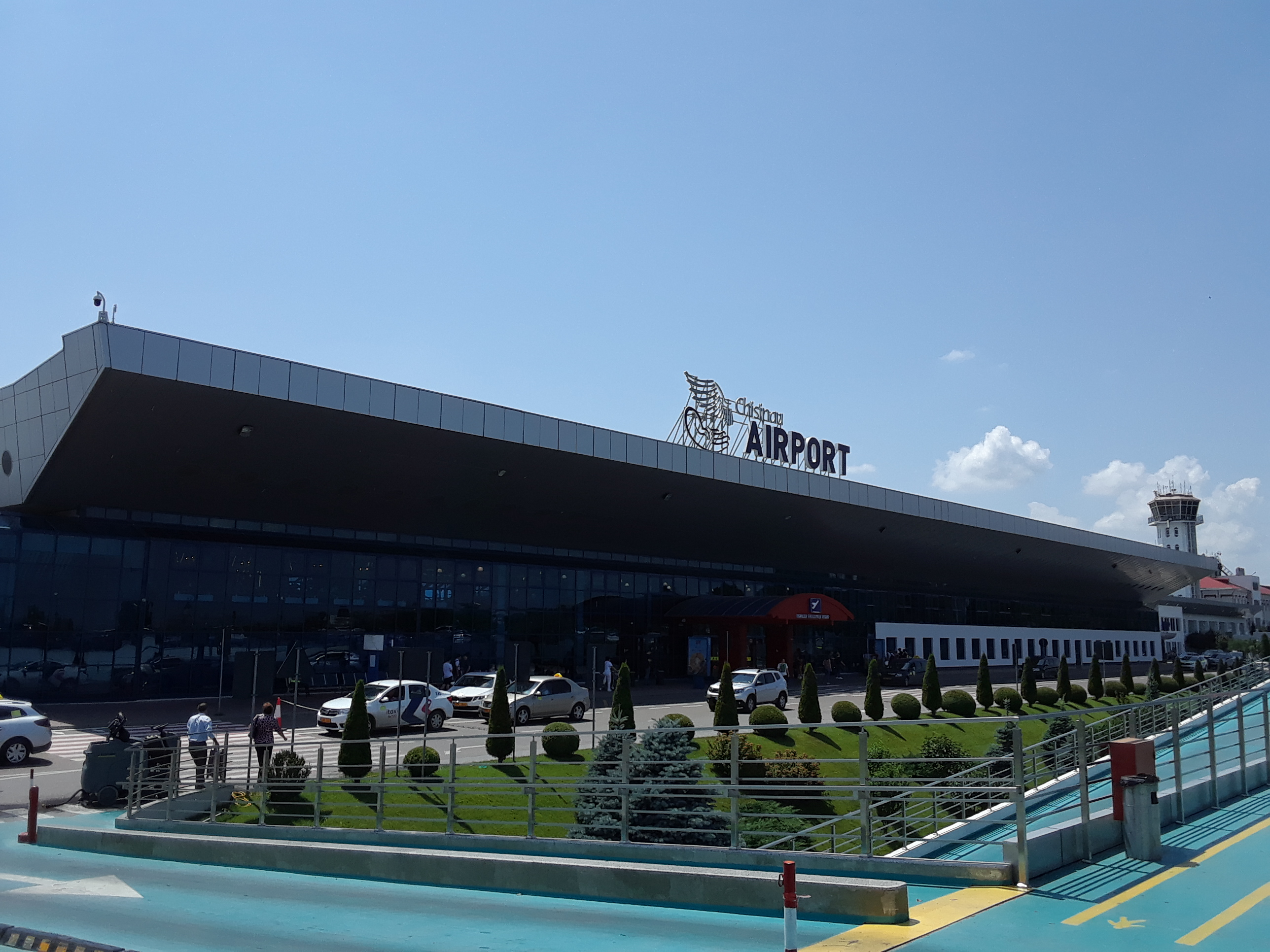 Chisinau Chisinau International Airport (KIV).